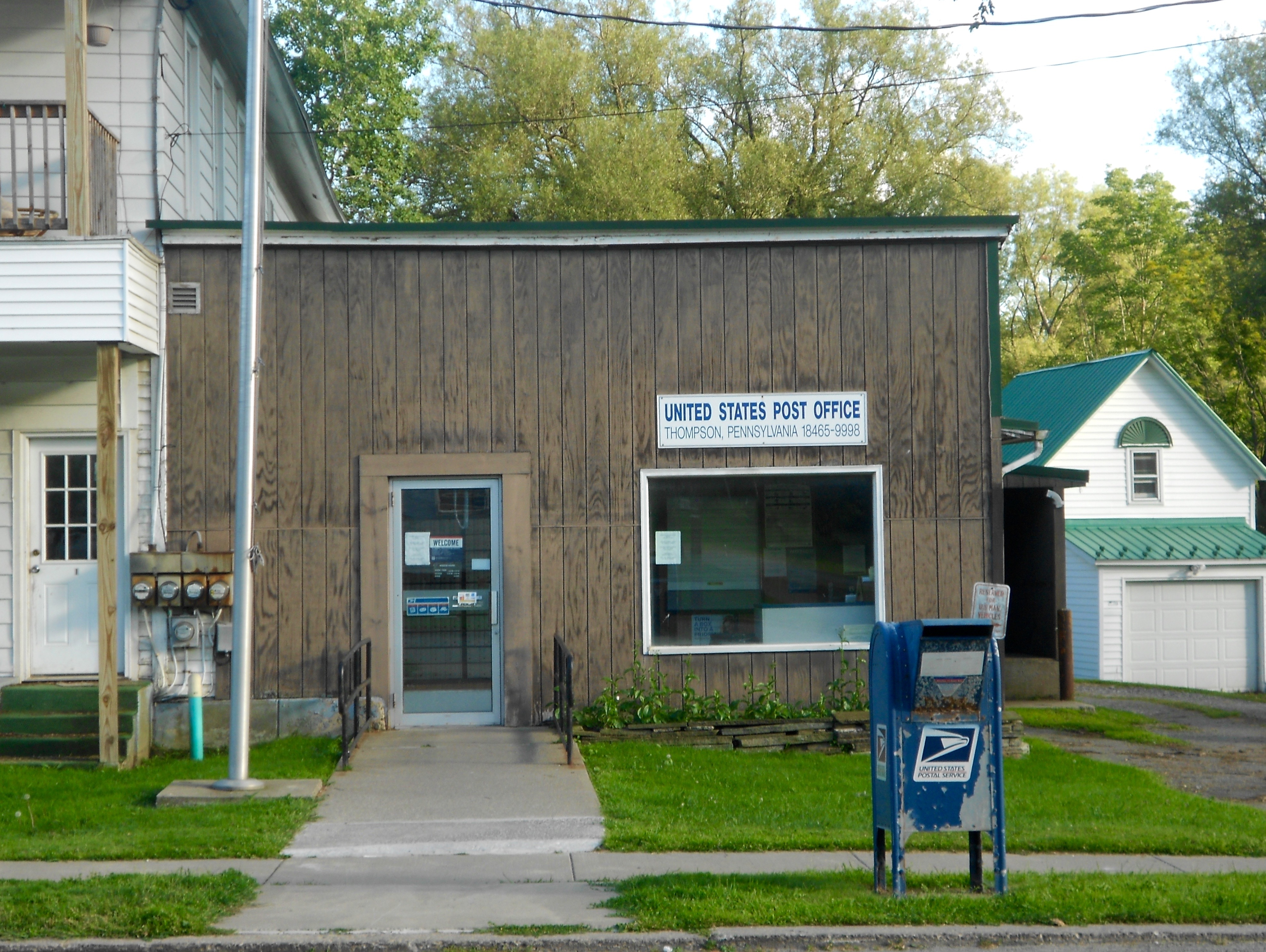 United States Post Office in Thompson, Pennsylvania. The zipcode is 18465-9998 with the -9998 indicating that it is not the main post office for the 18465 zipcode